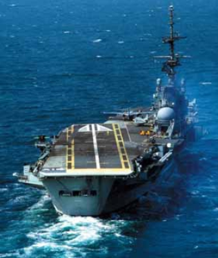 Aft view from an approaching aircraft of the Brazilian aircraft carrier Saõ Paulo (A12), in 2003.